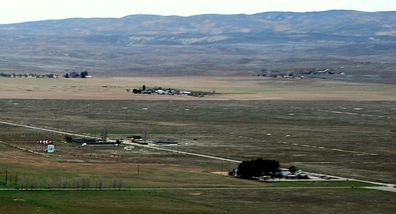 Aerial view of California Valley Community Center (lower right). Soda Lake Road is visible running diagonally upward toward the left, and the northern end of the airport runway is at the right edge next to the community center. The community of California Valley is near the usually dry Soda Lake, and Painted Rock on the Carrizo Plain. Located in San Luis Obispo County - California.